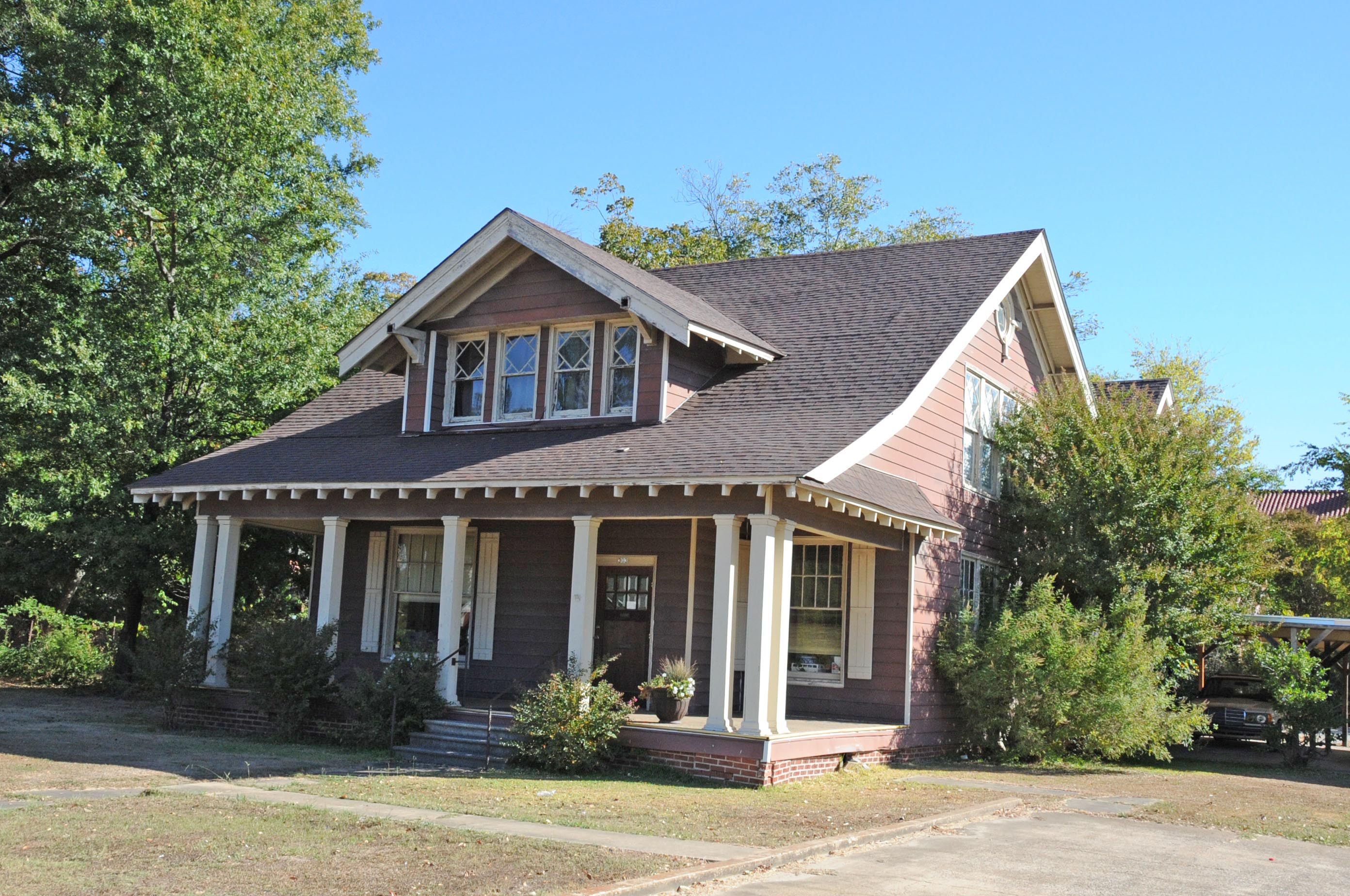 BUILT IN 1912 IN BUNGALOW-CRAFTSMEN STYLE; THERE ARE SEVERAL FOSTER HOMES IN HOPE SO IT MUST HAVE BEEN A LARGE FAMILY. THIS IS THE HOUSE LOCATED AT 303 NORTH HERVEY STREET.